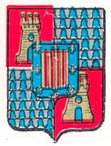 Coat of Arms of the Monroy family, Princely house in Sicily